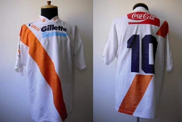 Puebla fc jersey used in 1995 1996